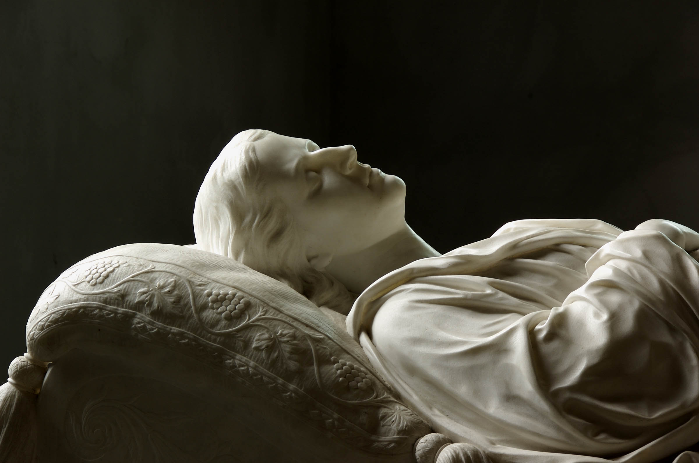 Part of the alabaster monument in St Withburga's parish church, Holkham, Norfolk by the sculptor Sir Joseph Boehm to Juliana, Countess of Leicester (née Whitbread, 1825–70)